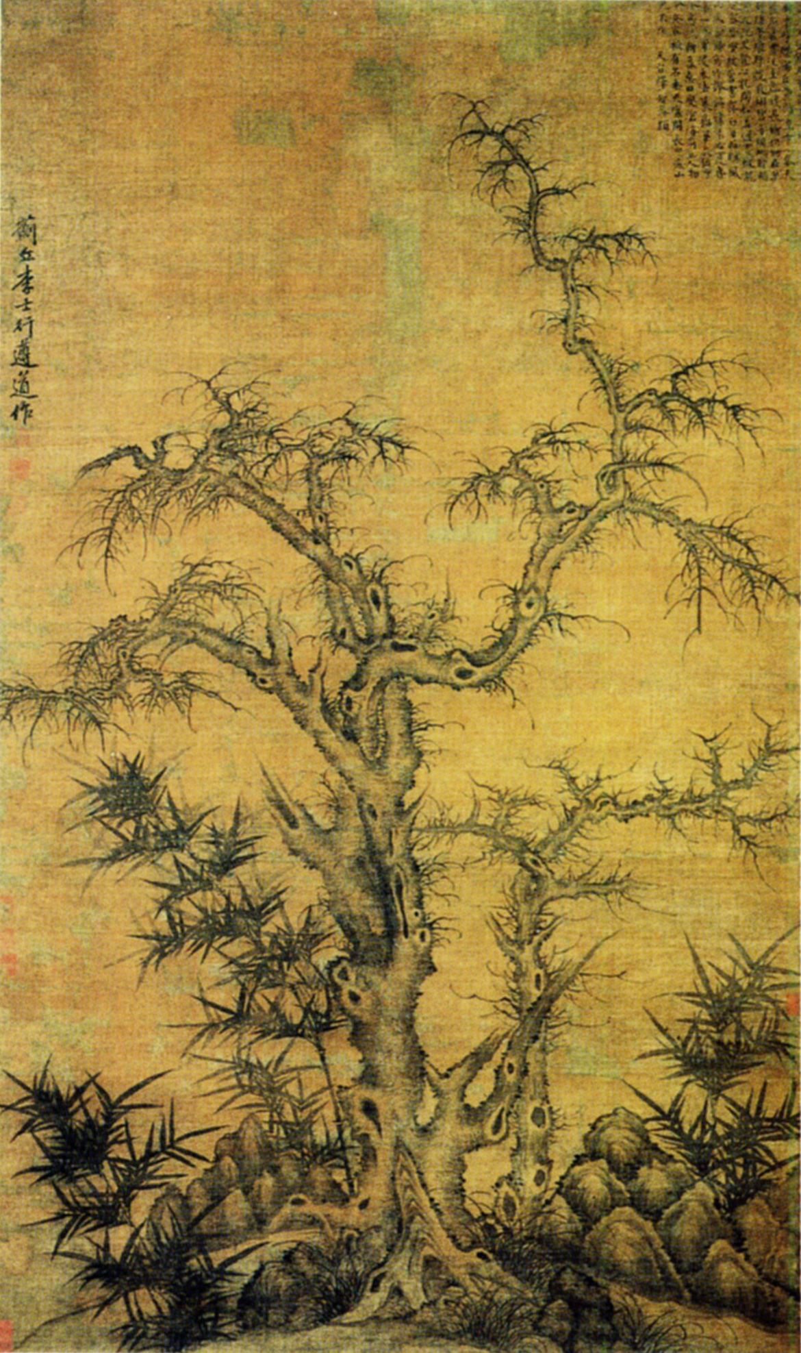 "Withered Tree, Bamboo, and Rocks" (枯木竹石图) painted by Li Shixing, Yuan Dynasty. Height: 169.5 cm; width: 100.9 cm. Shanghai Museum.